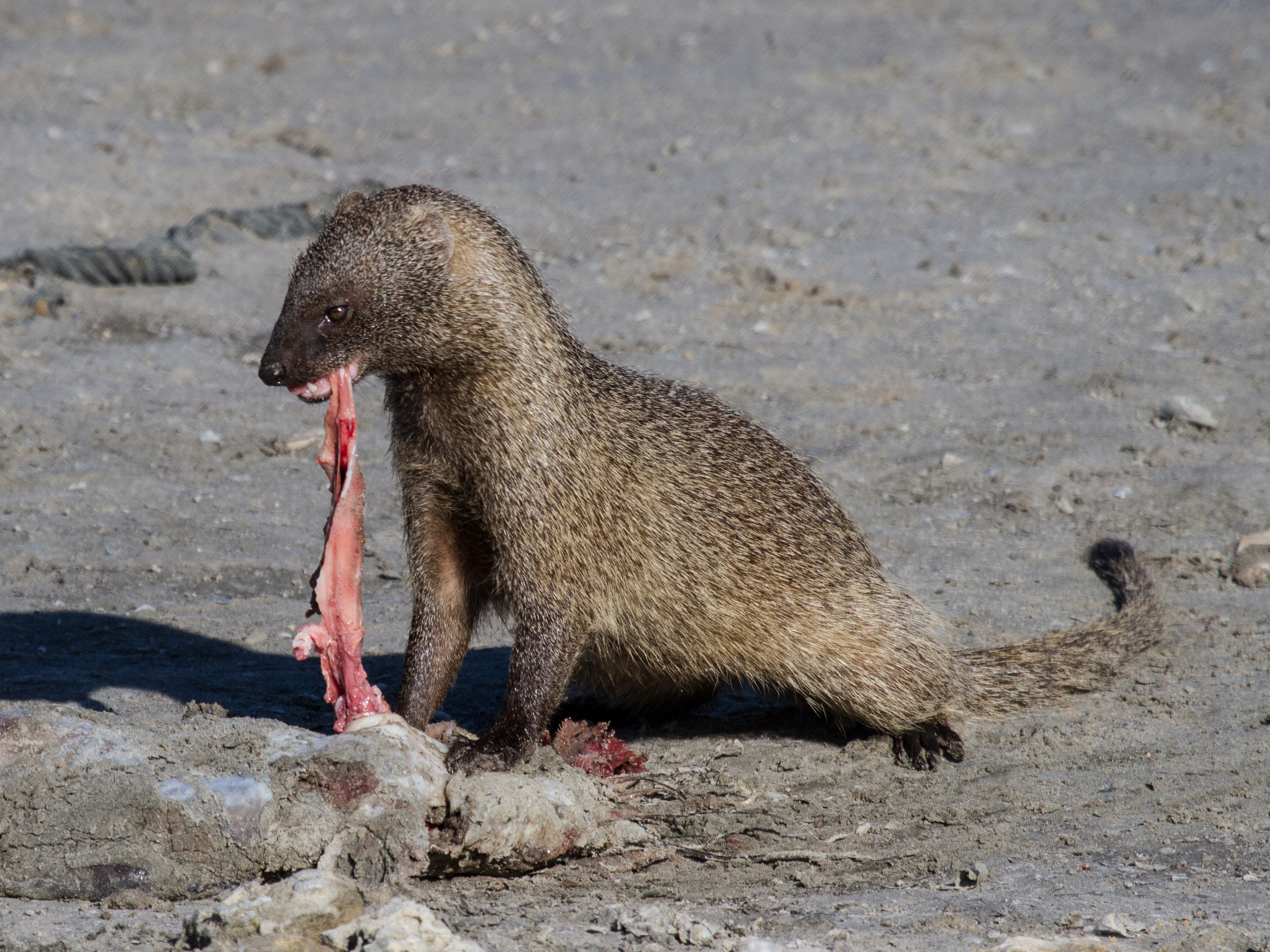 Egyptian mongoose eating dead fish at shore of fishing pool at Maayan Zvi in Israel